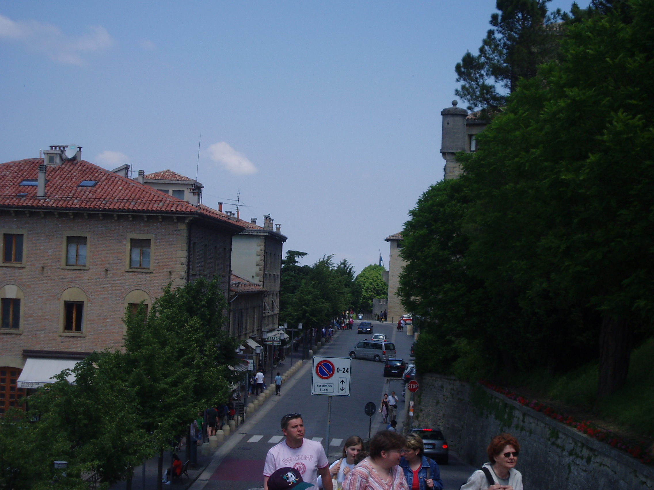 Lo Stradone of San Marino